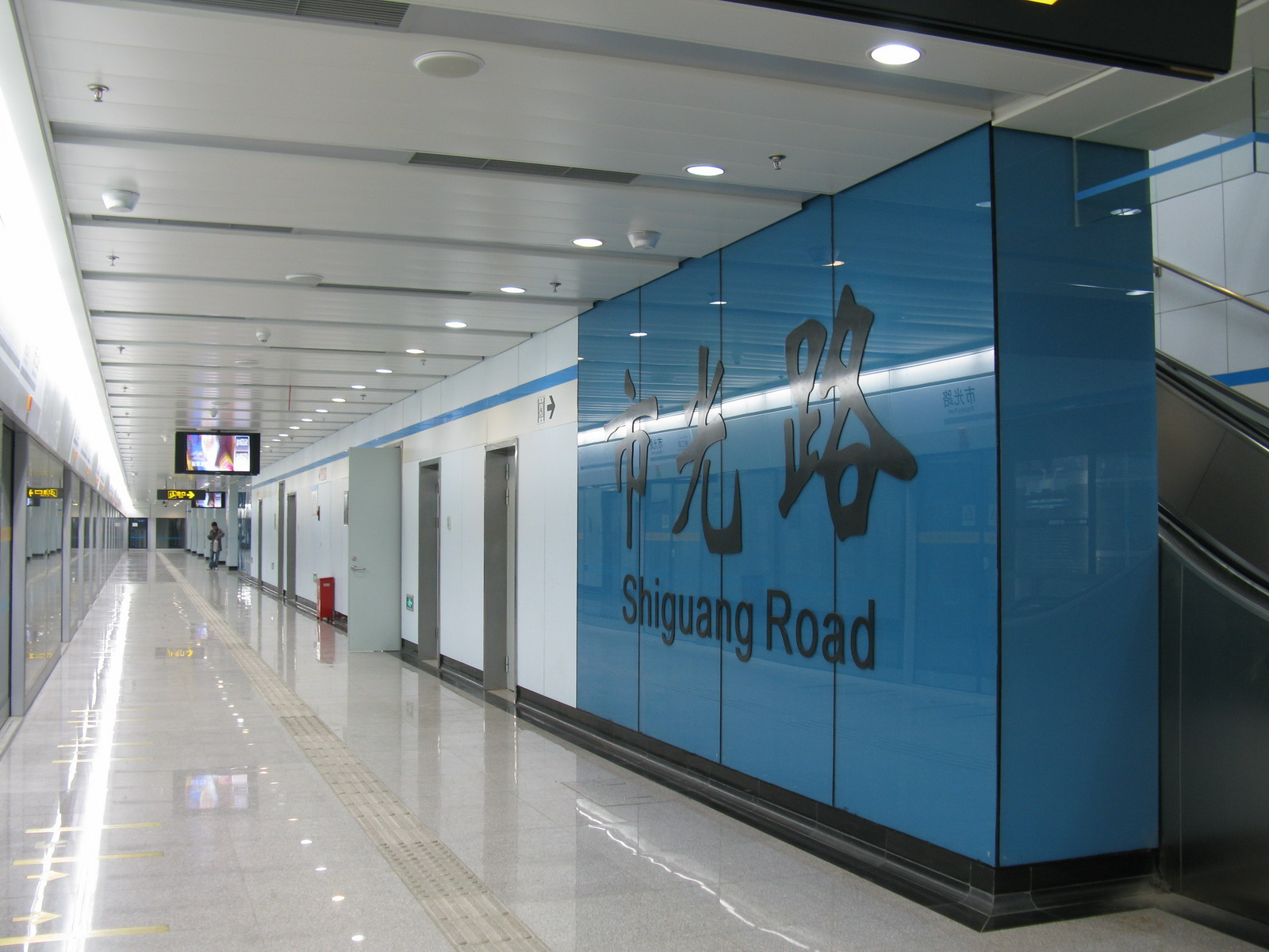 Line 8 Platform of Shiguang Road Station